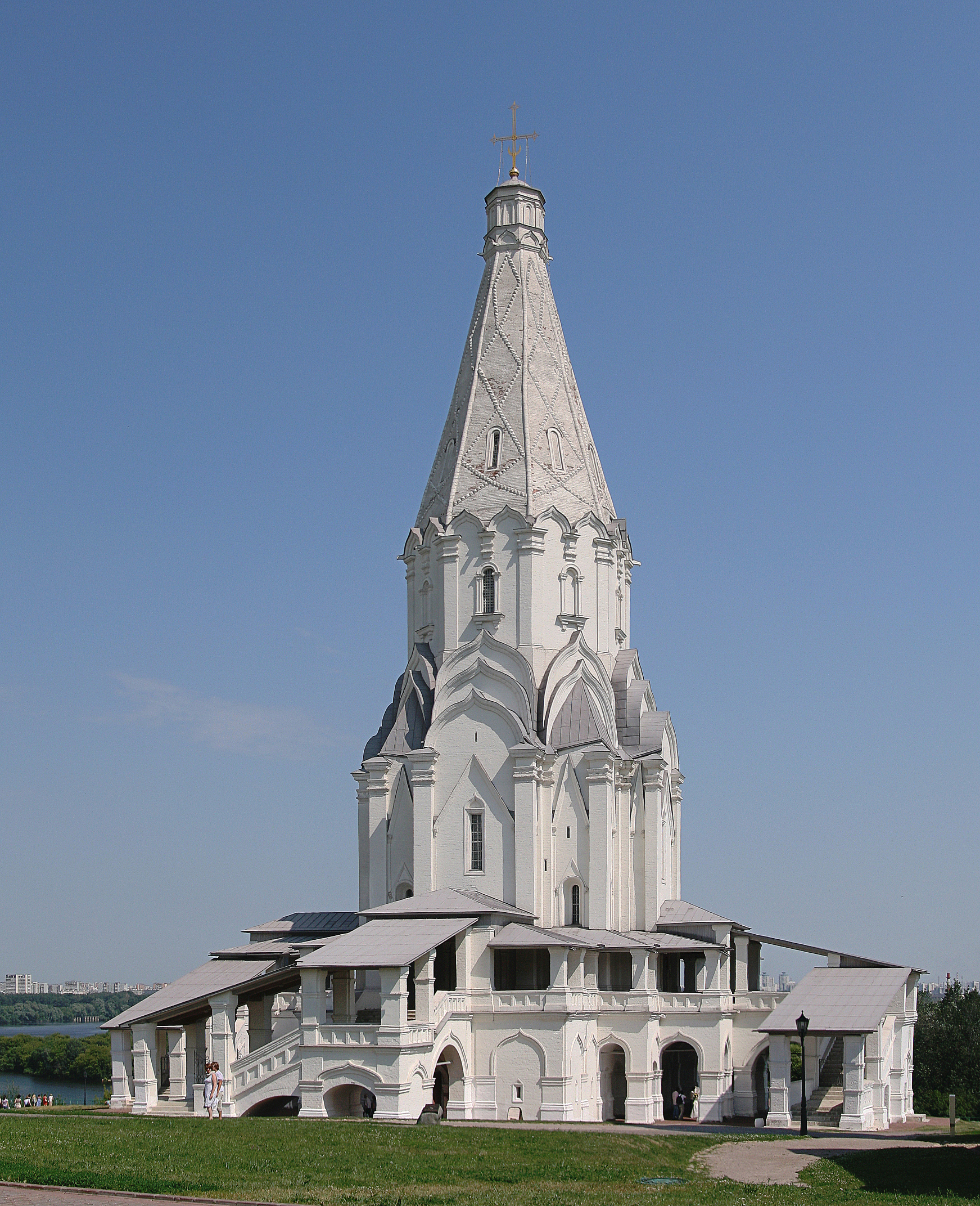 Church of the Ascension in Kolomenskoye (Moscow)